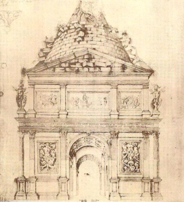 Ricostruzione grafica arco di Malborghetto del Sangallo